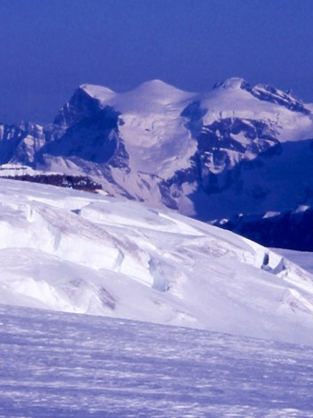 Mount Lyell 1 (Rudolph Peak), 2 (Edward Peak) and 3 (Ernest Peak) as taken from the Columbia Icefield - 147° and 30 km (19 mi) away, with Snow Dome icefall in the foreground and Castleguard Mtn. peeking up over over the top of it, on the left of the photo.